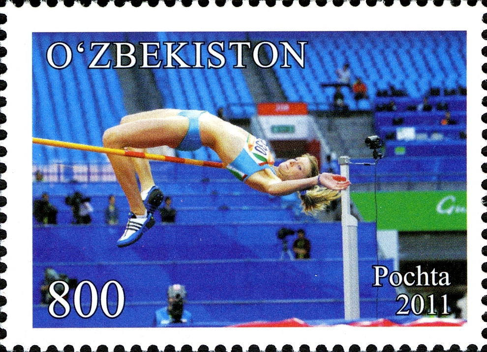 A stamp of Uzbekistan from The 20th Year of the Independence of Uzbekistan series, 2011. It depicts the moment when Svetlana Radzivil wins gold for Uzbekistan in the women's high jump competition at the 16th Asian Games on November 26, 2010.